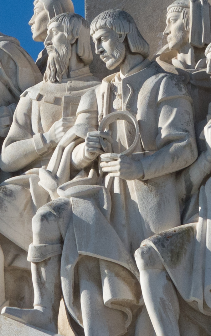 Statue of Ferdinand Magellan (c. 1480-1521), Portuguese navigator, in the Padrão dos Descobrimentos (Monument to the Discoveries), in Lisbon, Portugal.